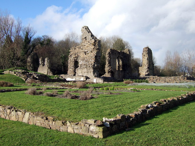 Monastic garden at Haverfordwest priory The C15 garden here is a unusual feature and it has been recreated in its original grid form with raised rectangular beds and grassy pathways between. The monks would have grown scented flowers and herbs for culinary and medicinal purposes here. One bed was more elaborate with a turf bench, doorway and internal paths, perhaps so that the prior could enjoy the sensory delights of a summer evening. This is the view looking northwest.